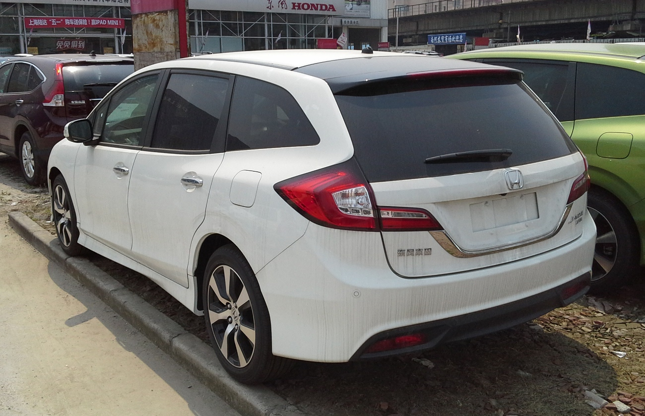 Honda Jade photographed in Shanghai, China.